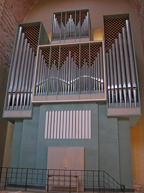 The organ installed in the Pitsunda cathedral, Abkhazia